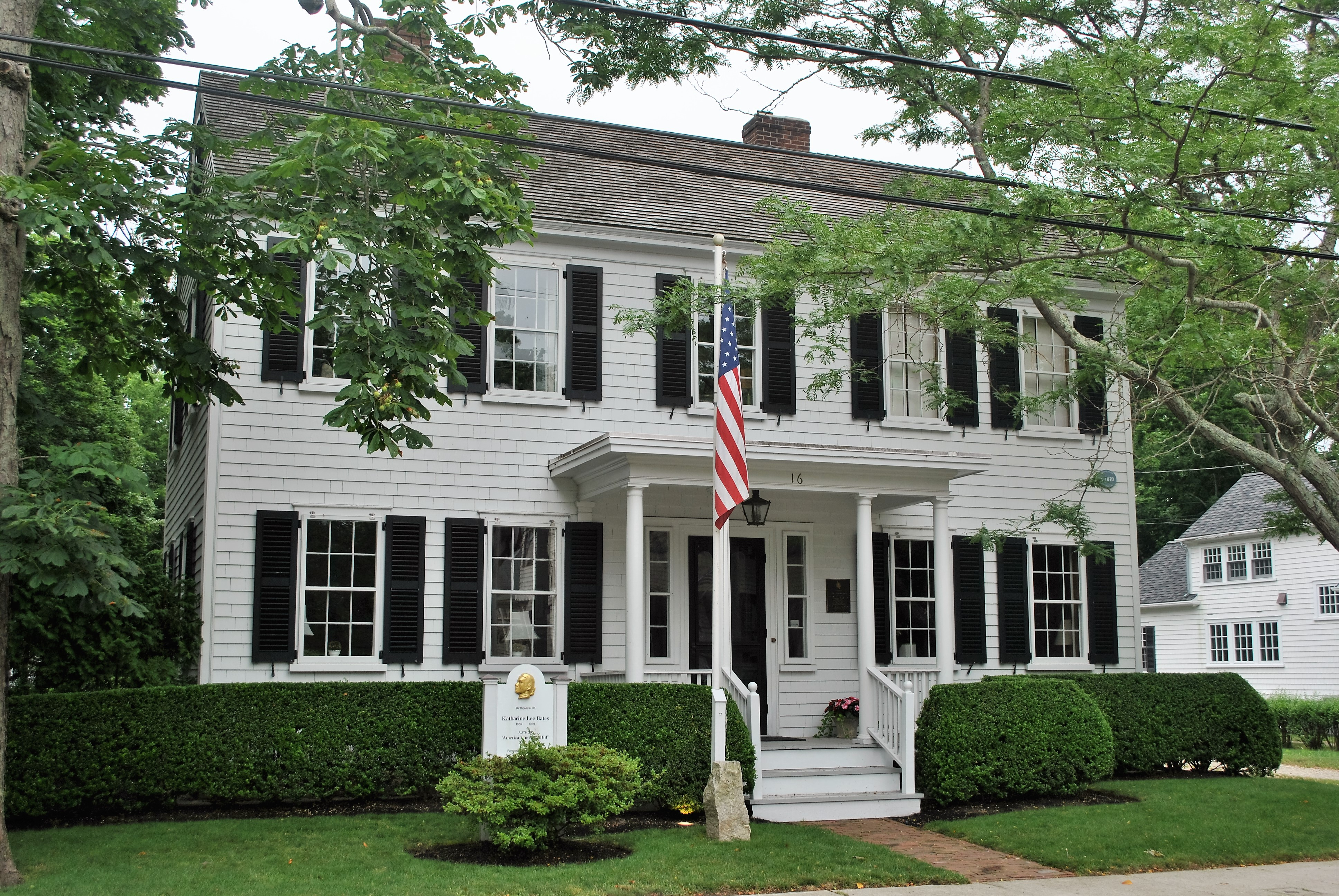 Image originally published in Queer Places: Retracing the Steps of LGBTQ people around the World Authored by Elisa Rolle